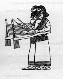 Drawing rendering the ancient Babylonian santur. Taken from an artistic relief etching dating back thousands of years. Believed to be the first Santur created ever.